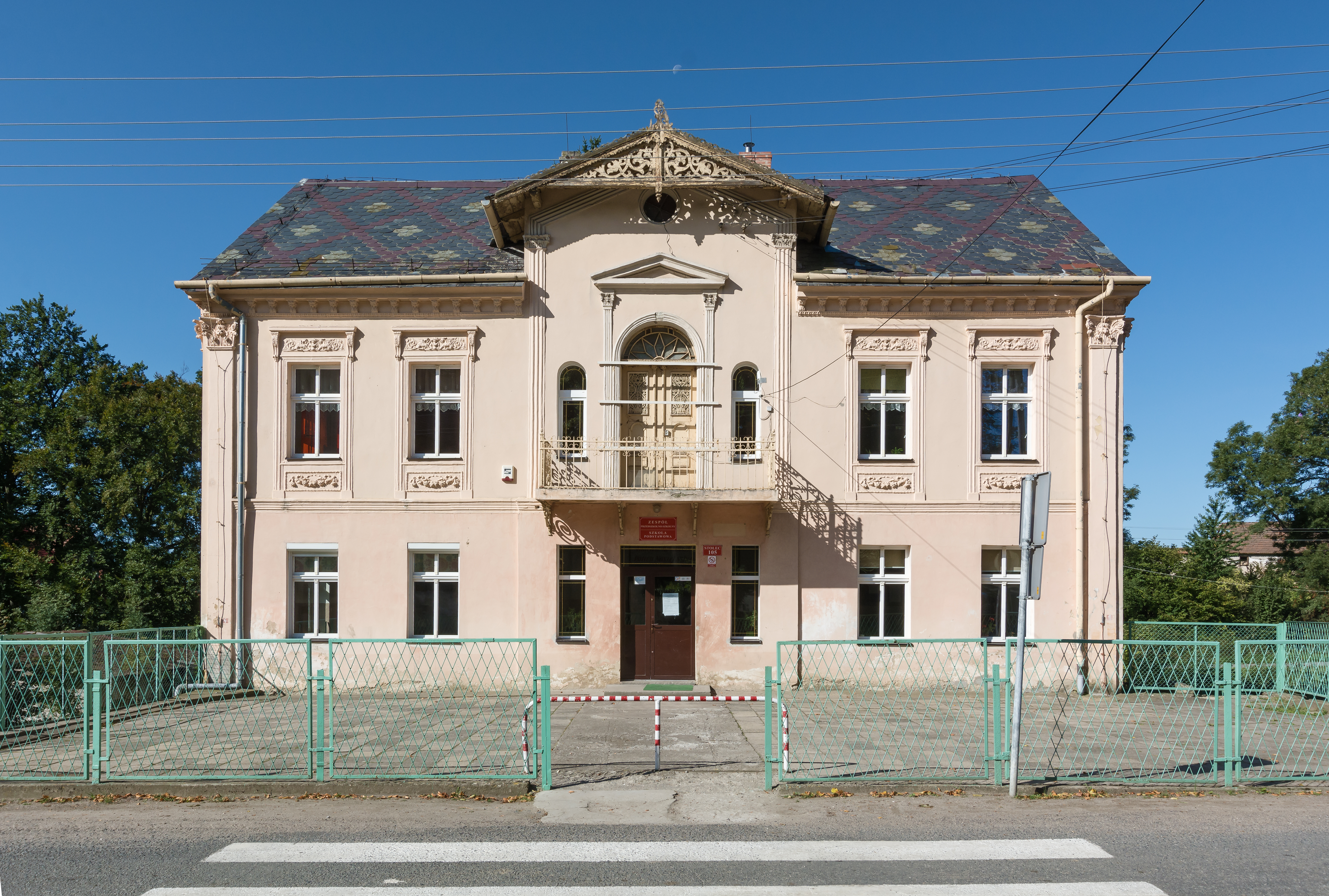 Elementary school in Stolec